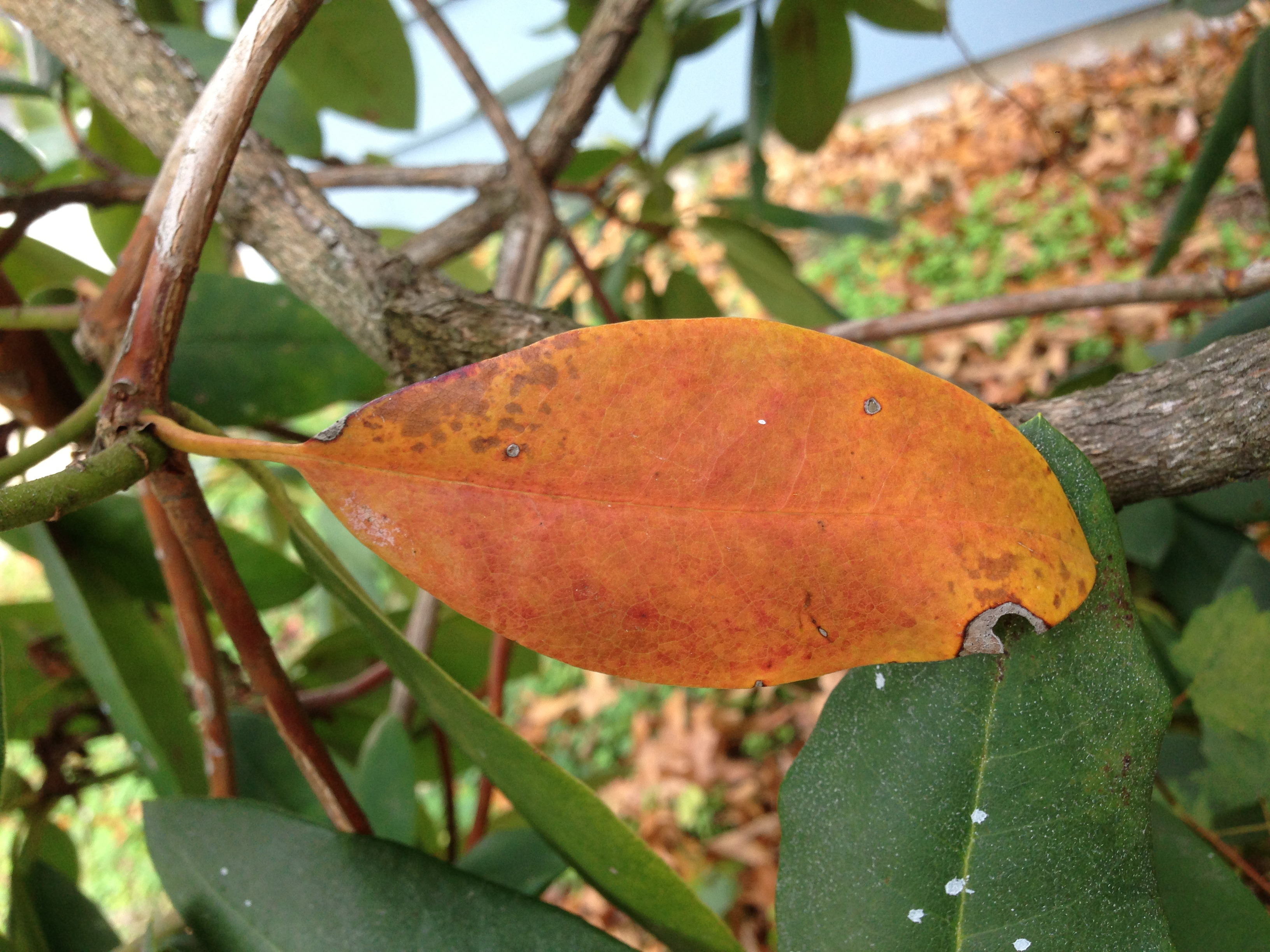 Evergreen Rhododendron foliage coloring before being shed in Ewing, New Jersey